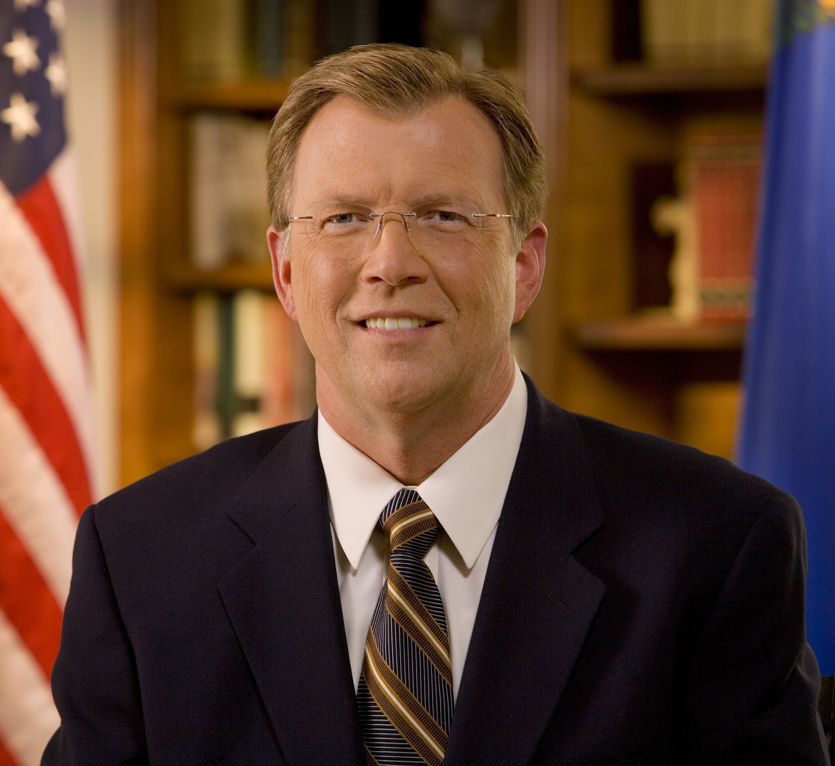 Jon Porter, U.S. Congressman (R-Nevada, 2003-2009)